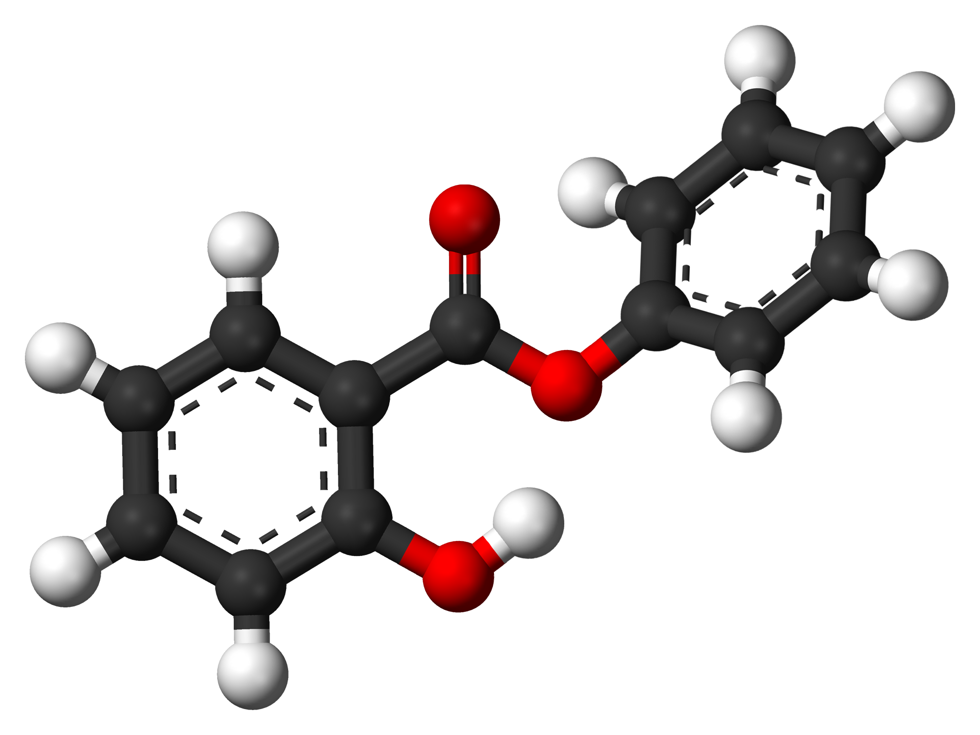 Ball-and-stick model of the phenyl salicylate molecule, the ester of phenol and salicylic acid.